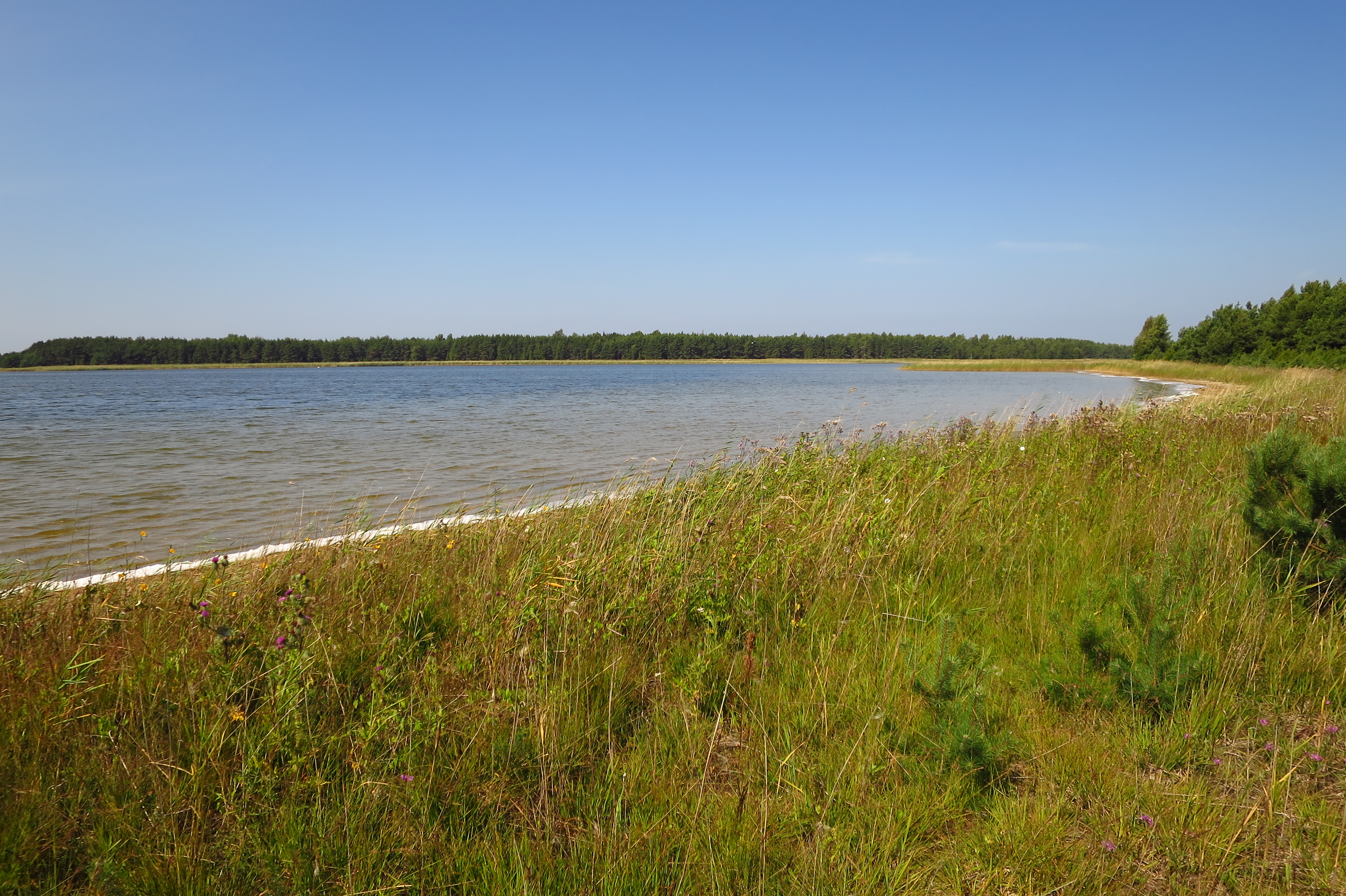 Laialepa laht Harilaiul Vilsandi rahvuspargis